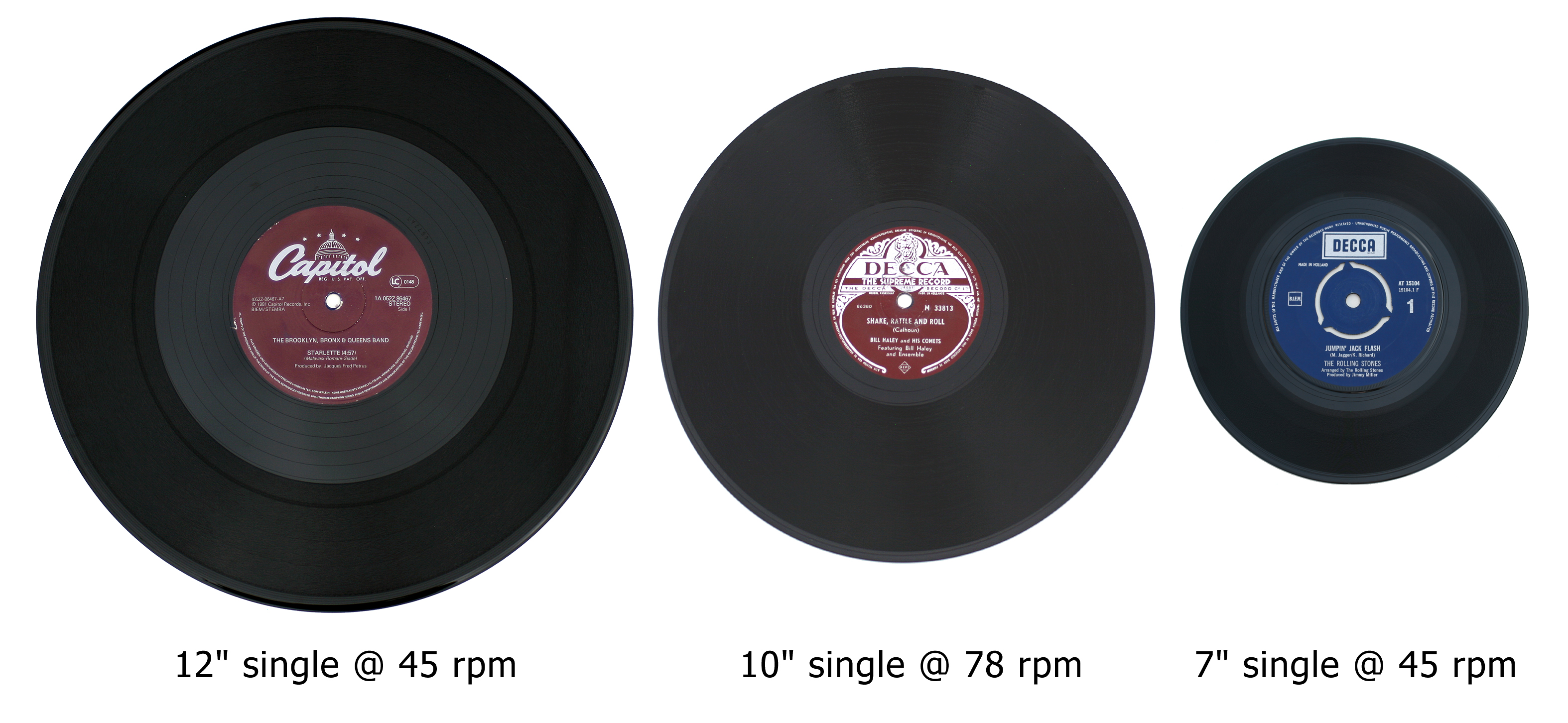 3 formats of vinyl singles